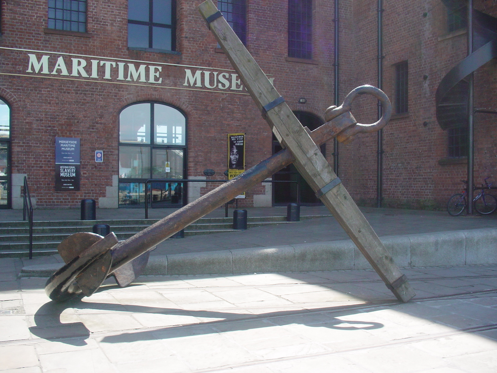 Large ship's anchor, outside the Merseyside Maritime Museum, Liverpool, UK